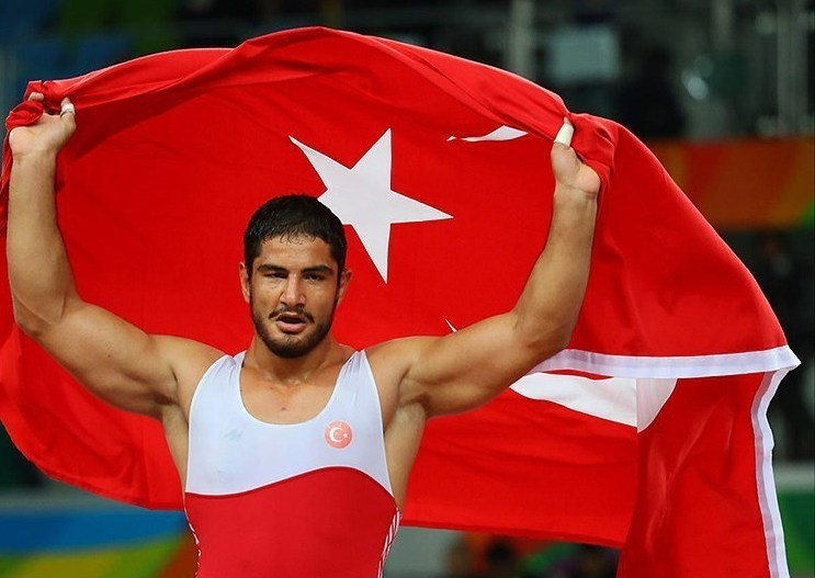 Taha Akgül from Turkey won gold medal at the 2016 Summer Olympics. Men's Freestyle Wrestling 125 kg